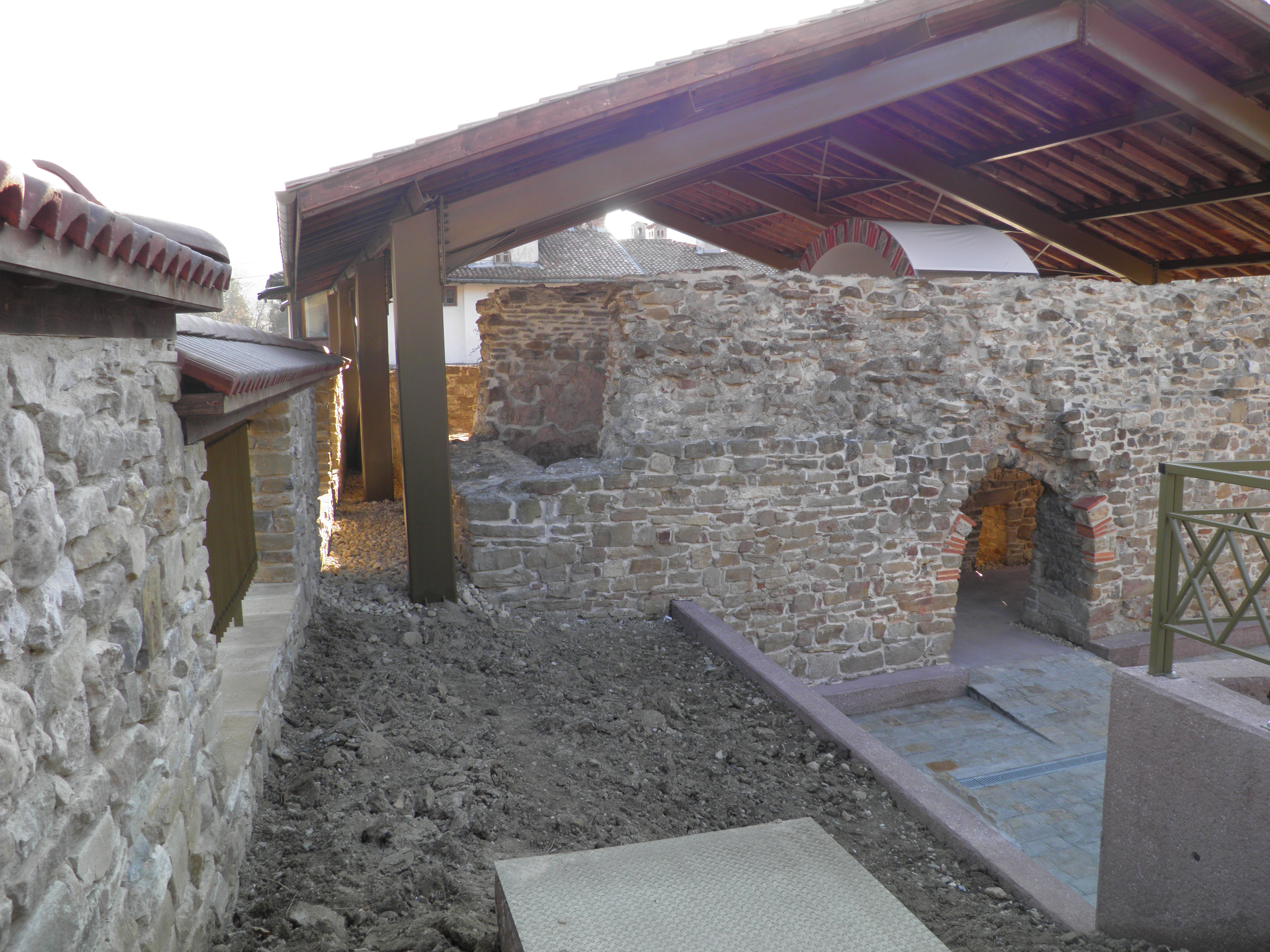 Shishman’s Bath ruins from Second Bulgarian Empire